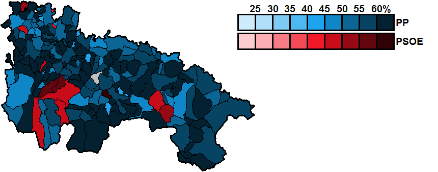 Most-voted party in La Rioja municipalities, showing vote share obtained, in the Spanish general election, 2011.